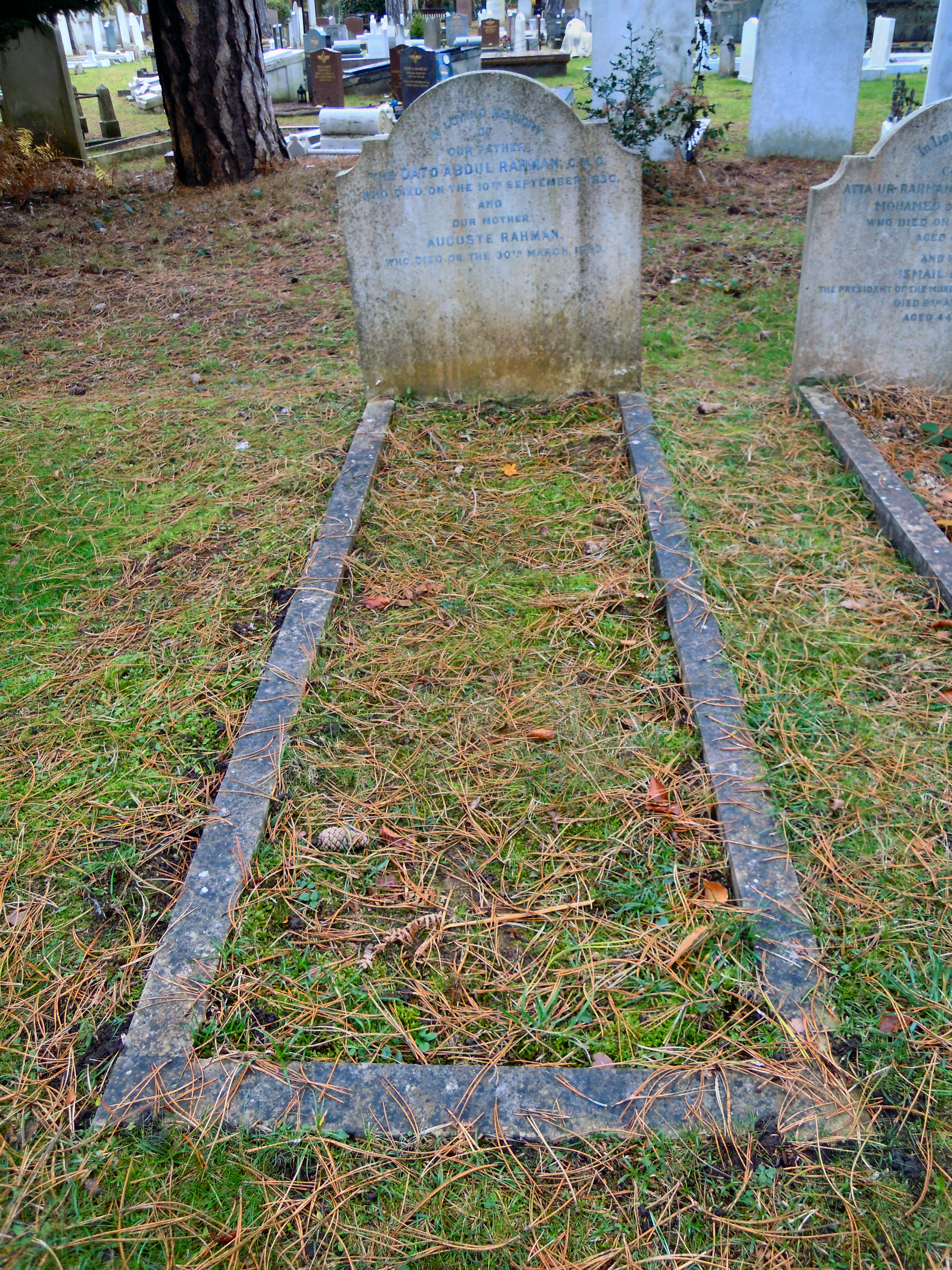 The grave Abdul Rahman Andak (1859-1930) in Brookwood Cemetery in Surrey